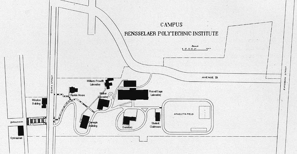 Map of the RPI (Rensselaer Polytechnic Institute) campus in 1909.